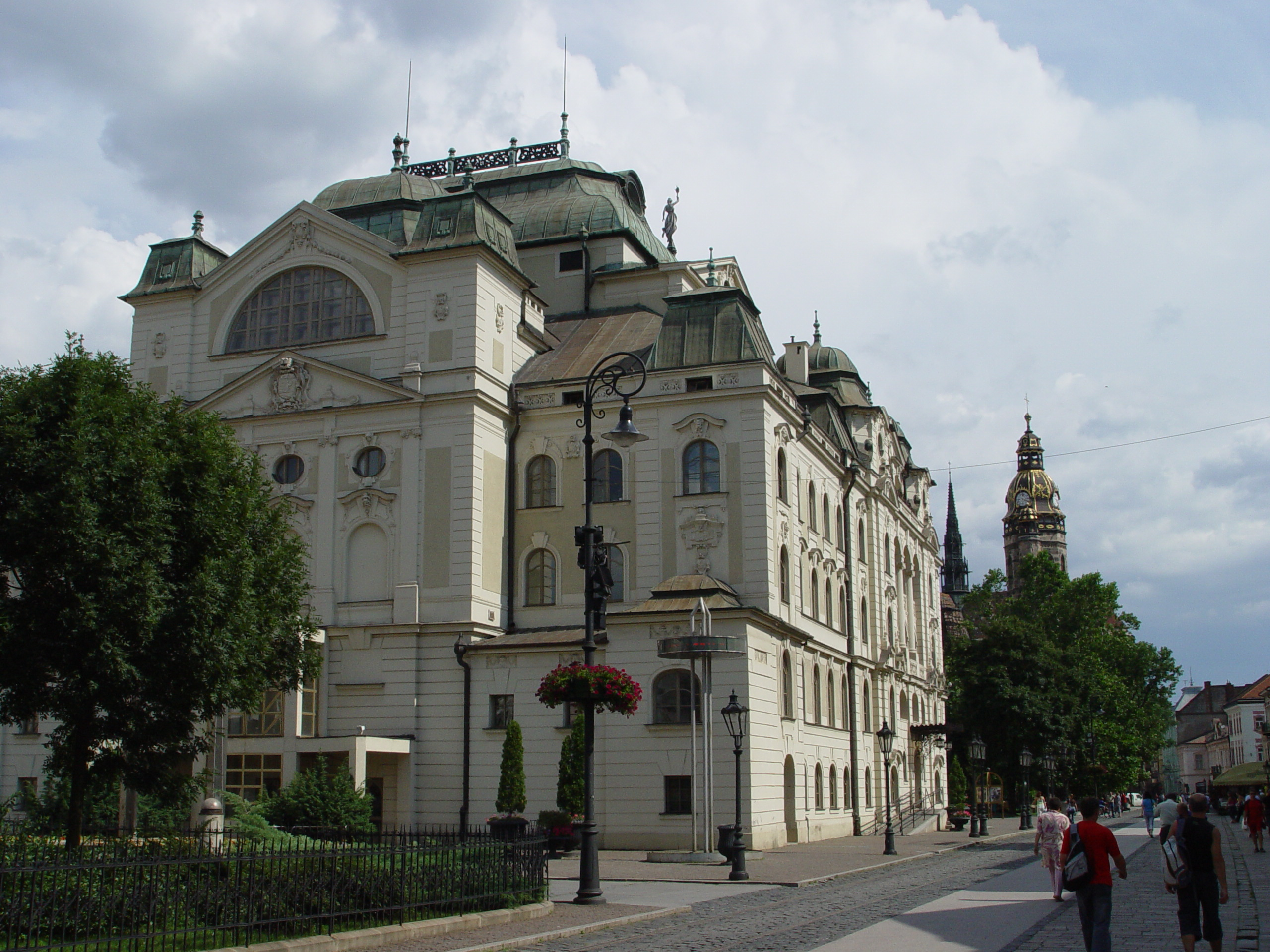 Slovakia, Košice, State Theater on Main Street